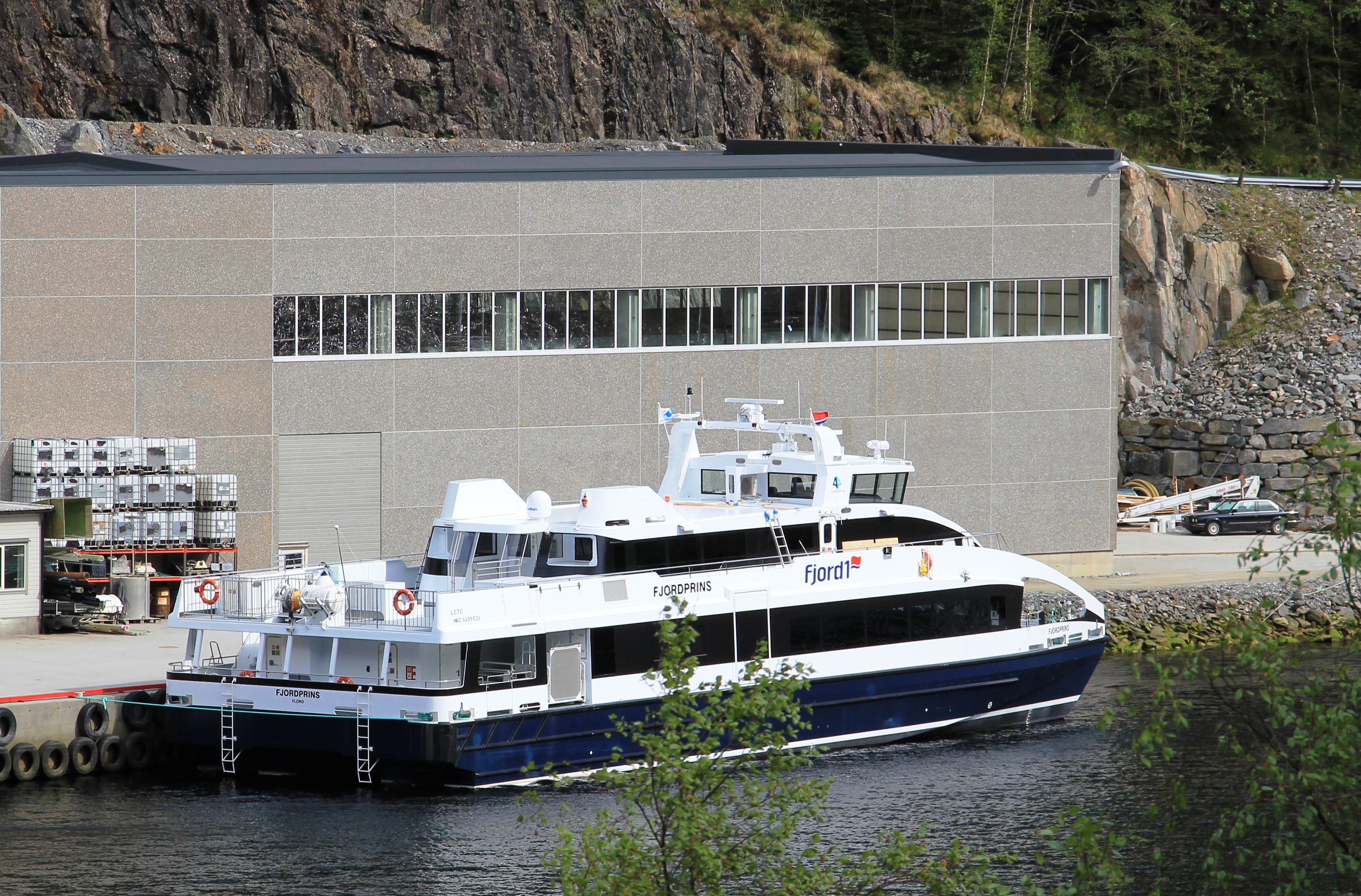 The speedboat Fjordprins during reconstruction at Brødrene Aa in Hyen in Gloppen